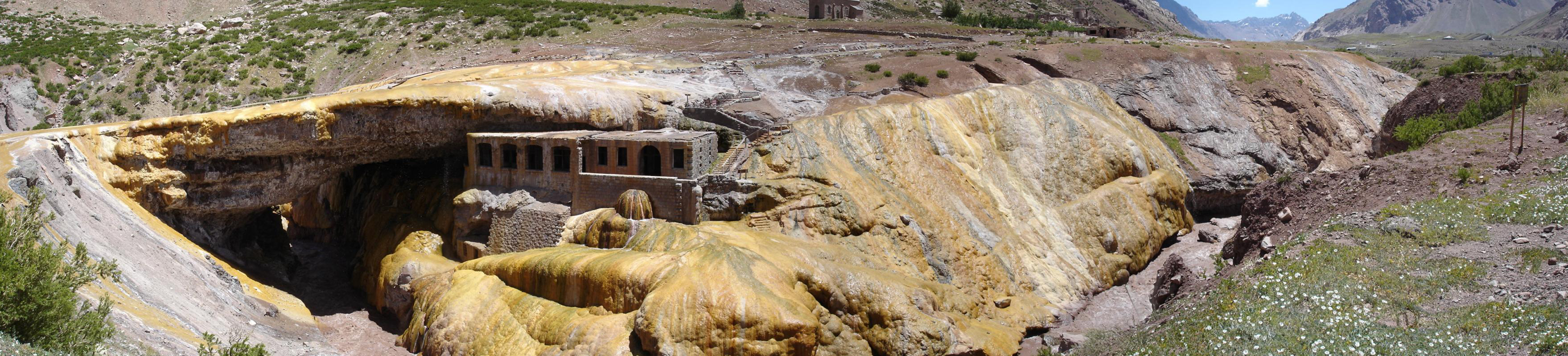 Photo of Puente del Inca, Argentina, taken by Daniel Spillere Andrade, January 2007.